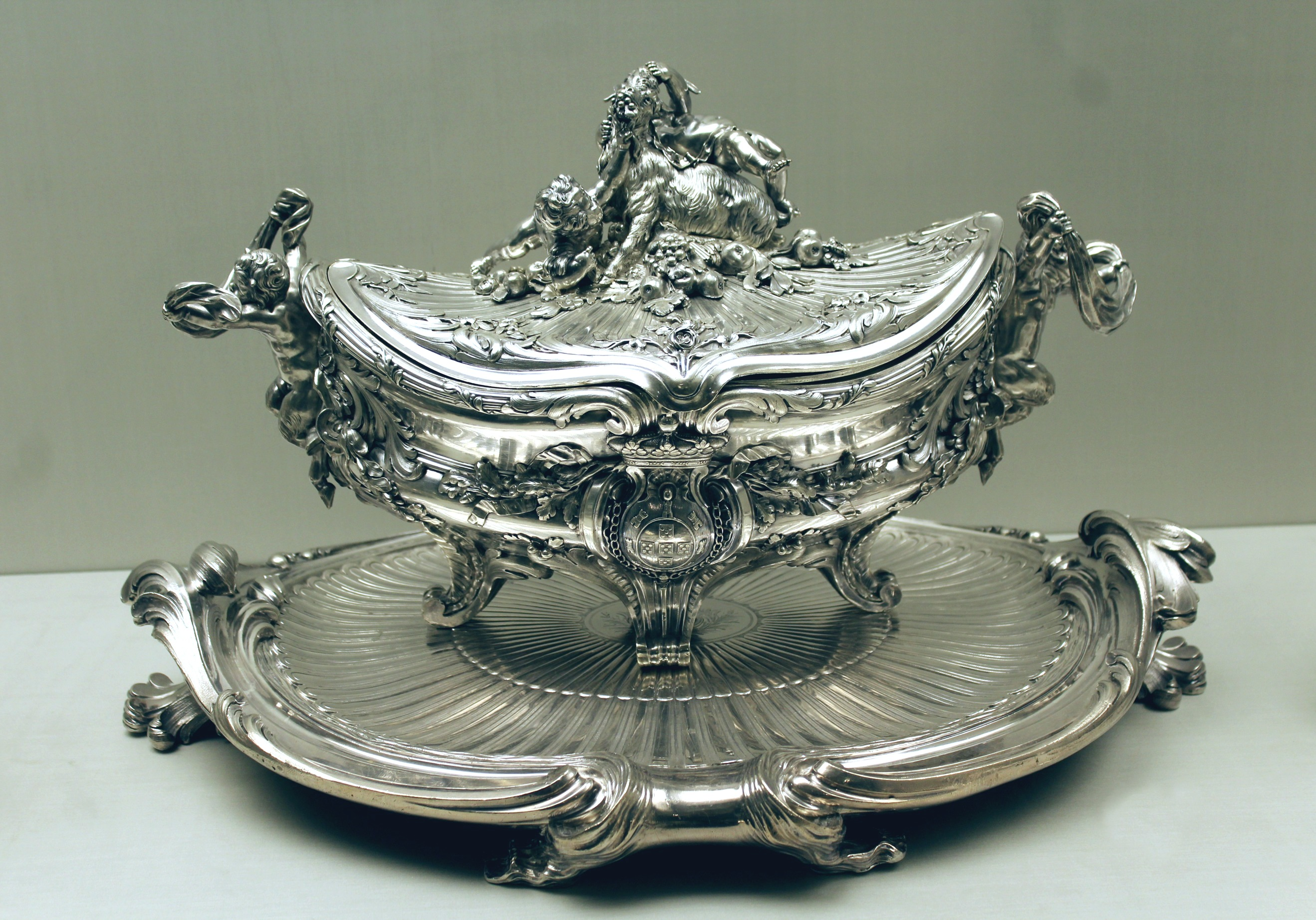 Lisbon, Museum Nacional de Arte Antiga, tureen